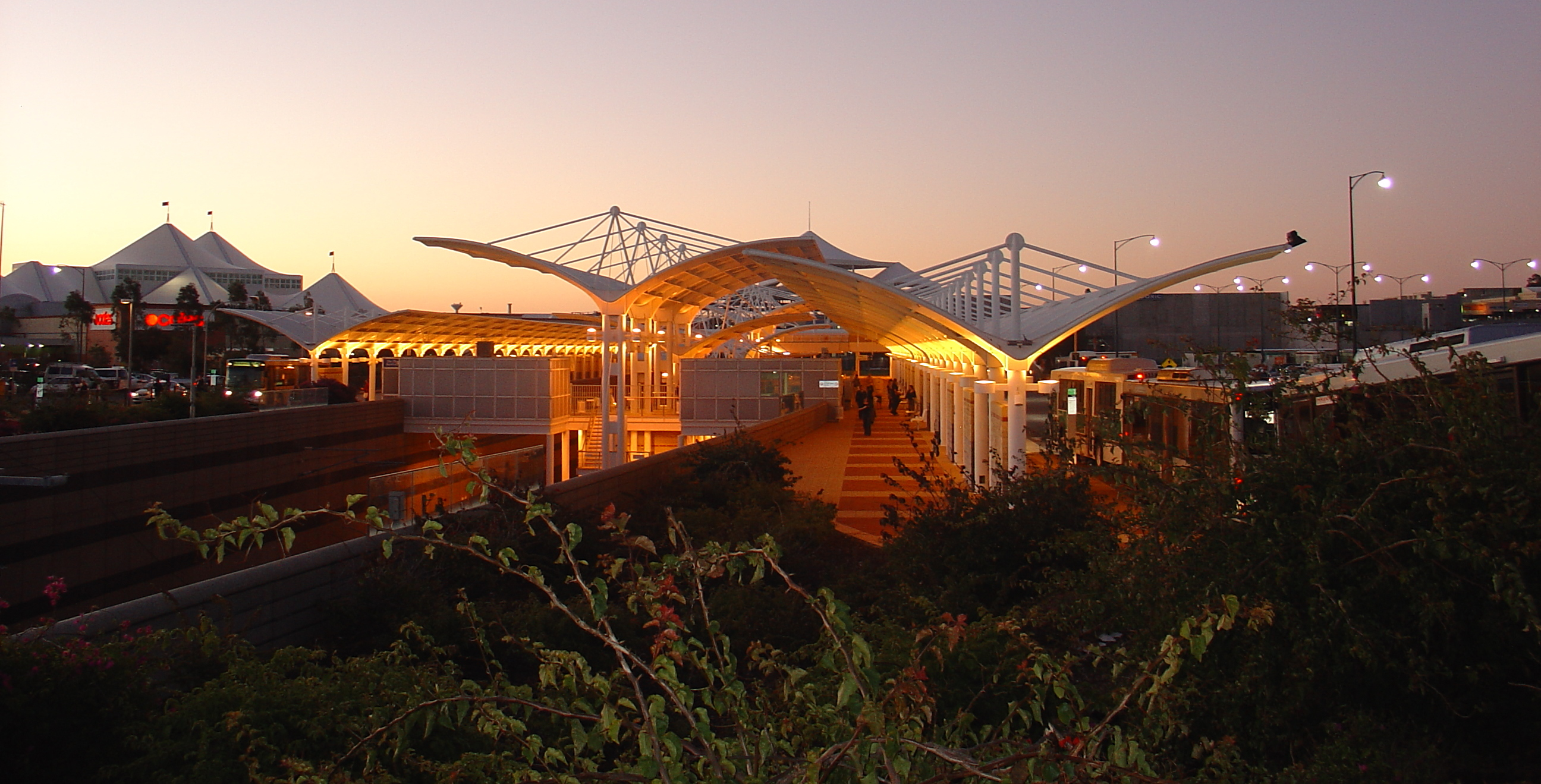 Shot from Collier Pass looking northward at Joondalup Railway Station at dusk.